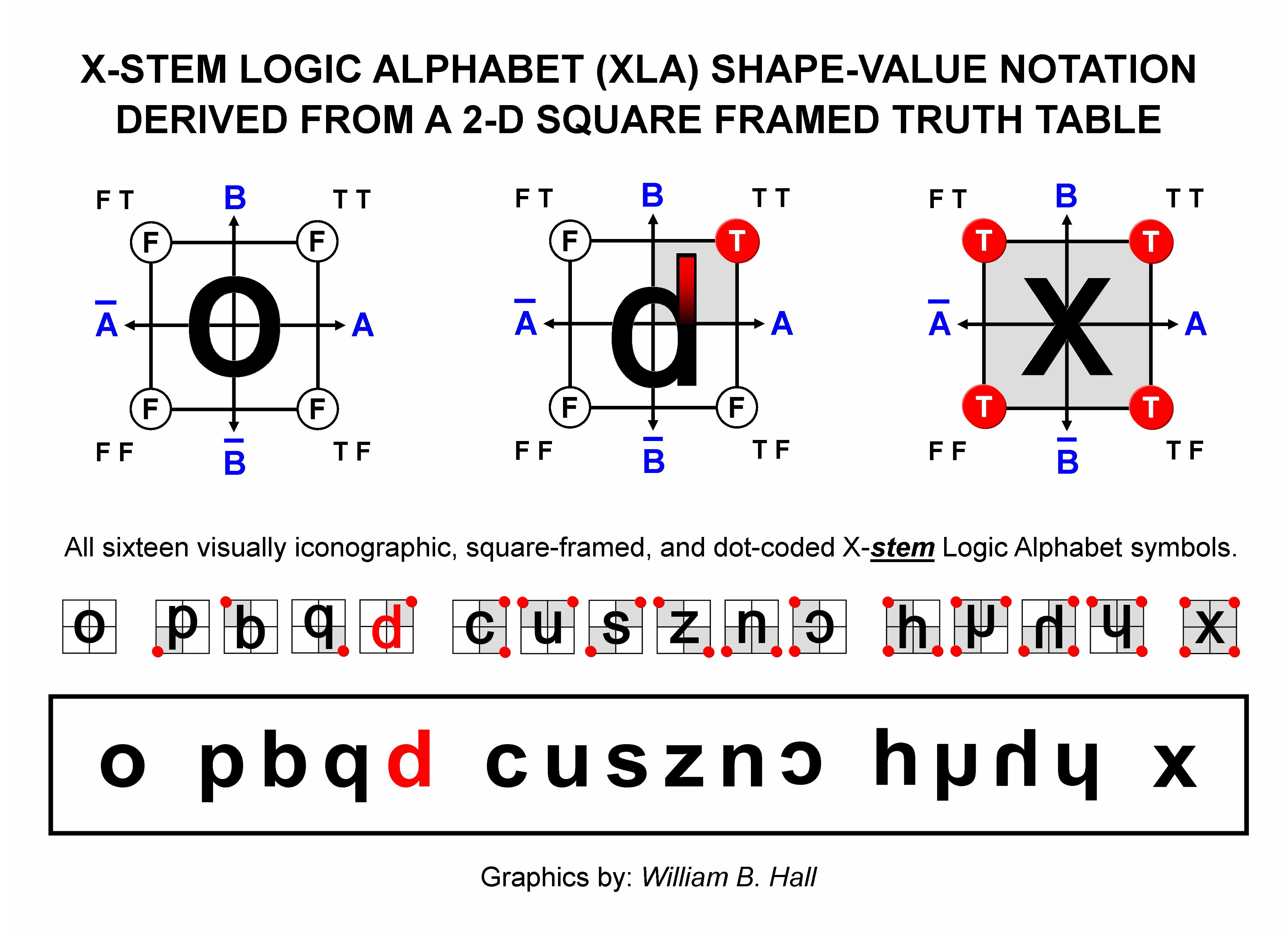 X-stem Logic Alphabet (XLA) letter shapes derived from a 2-dimensional square framed (xy) Cartesian Coordinate truth table. XLA letter shapes o, d, and x are prominently displayed to demonstrate how all 16 binary connectives of Boolean Algebra are created by utilizing 2-dimensional coordinate axes.